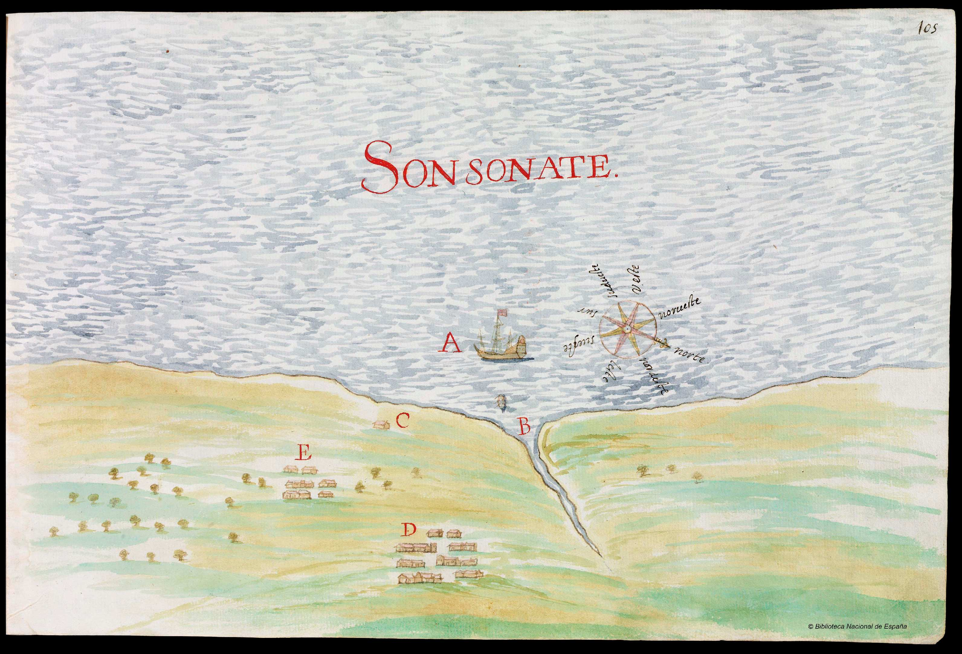 Page 105 of the Descripciones geográphicas e hydrográphicas de muchas tierras y mares del Norte y Sur en las Indias, en especial del descubrimiento del Reino de la California (Geographic and hydrographic descriptions of many northern and southern lands and seas in the Indies, specifically the discovery of the kingdom of California), written by captain Nicolás de Cardona after his expedition of 1614.